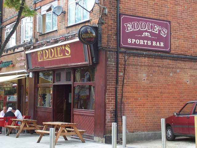 Eddie`s Sports Bar Eddie`s Wembley High Road